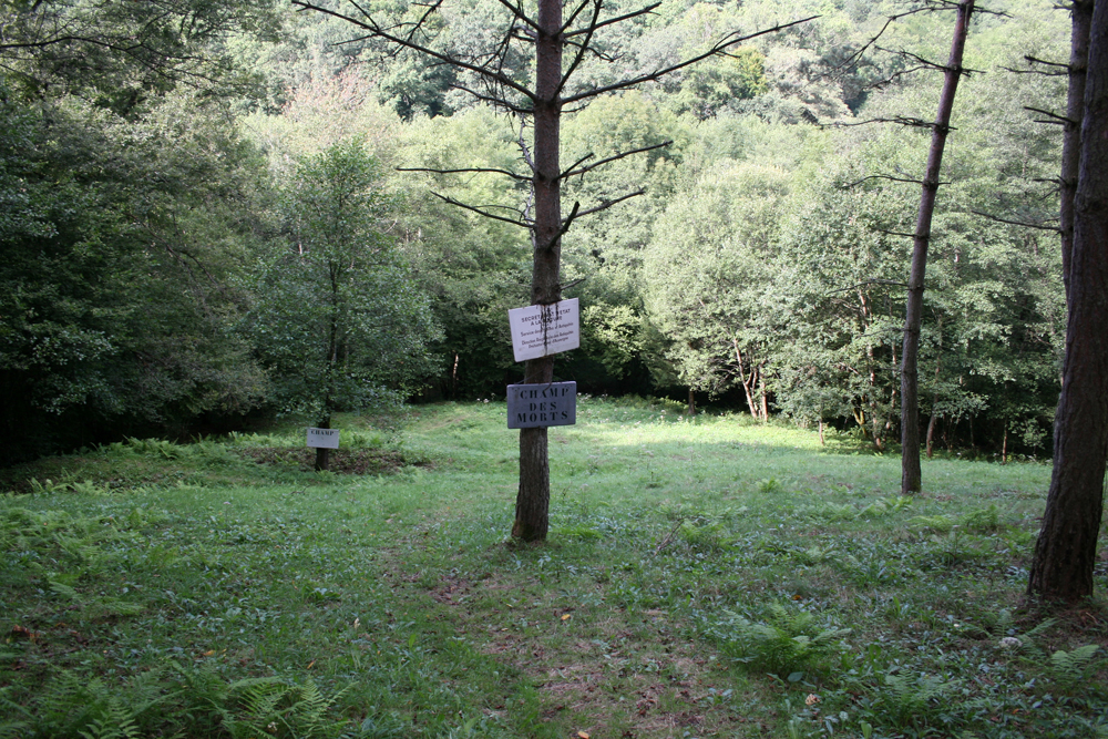 general view of the controversial Glozel site, Ferrières-sur-Sichon, France